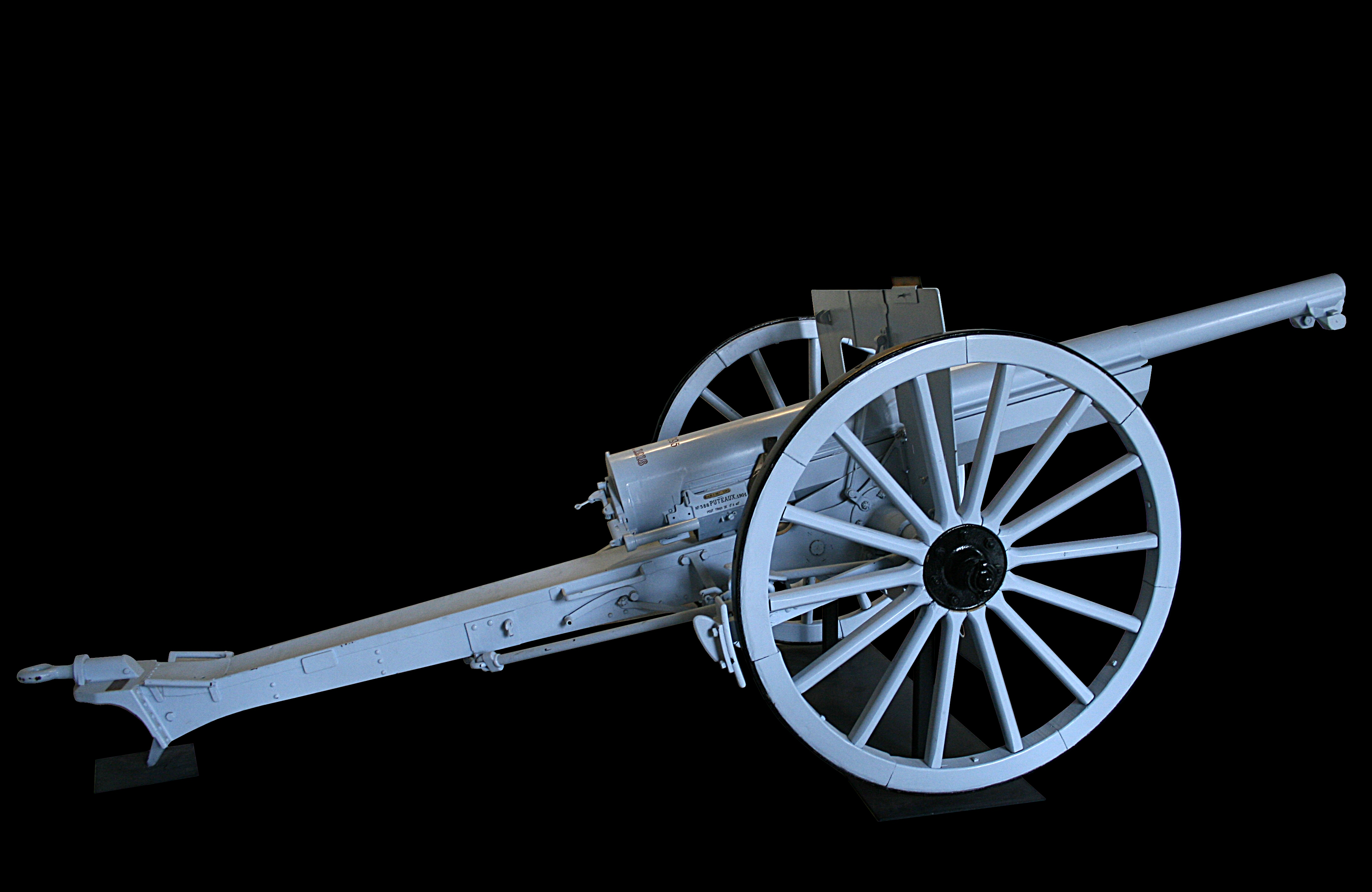 75 mm rapid fire cannon model 1897 in steel, with striped core and oleopneumatic brake, with protection plate at the level of the wooden wheels encircled by iron, mounted on steel carriage whose arrow has a spade allowing the anchor securely to the ground, currently preserved in the Arsenal gallery at the army museum of the Hôtel de Invalides in Paris.